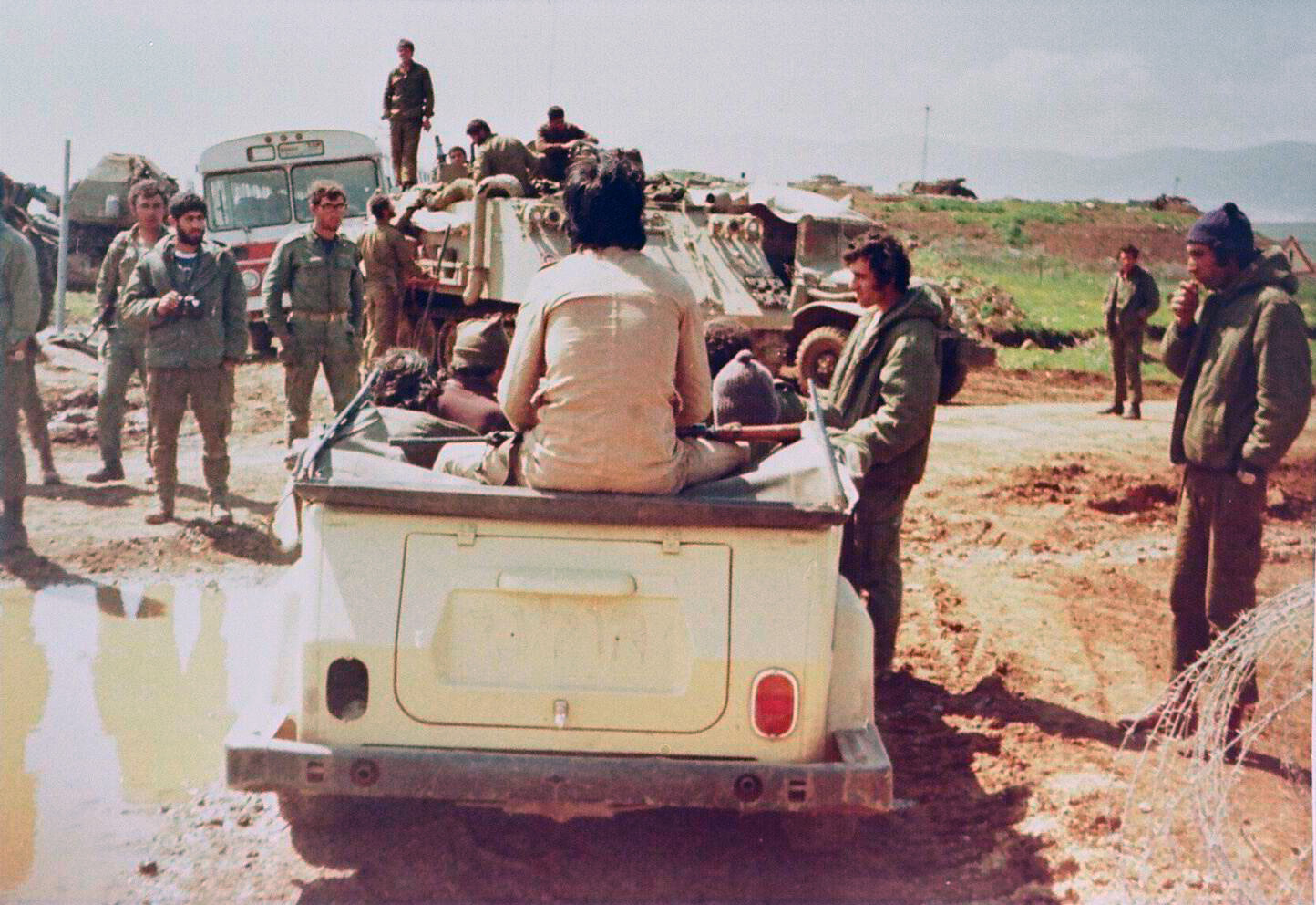 Israel Defense Forces